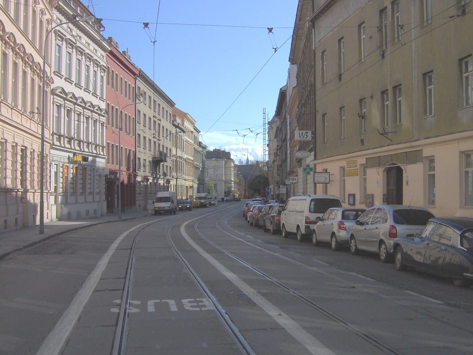 Tram track in Údolní street, close to Obilní trh stop